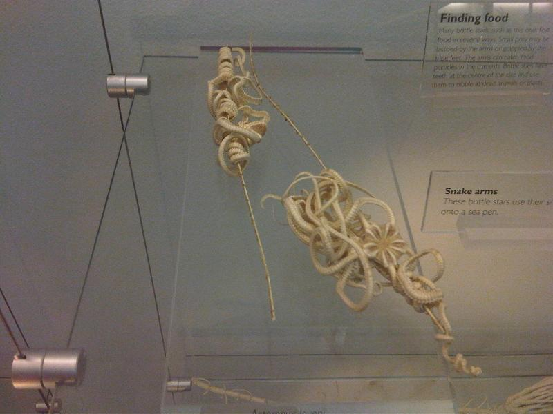 Asteronyx loveni at the Natural History Museum in London, England.